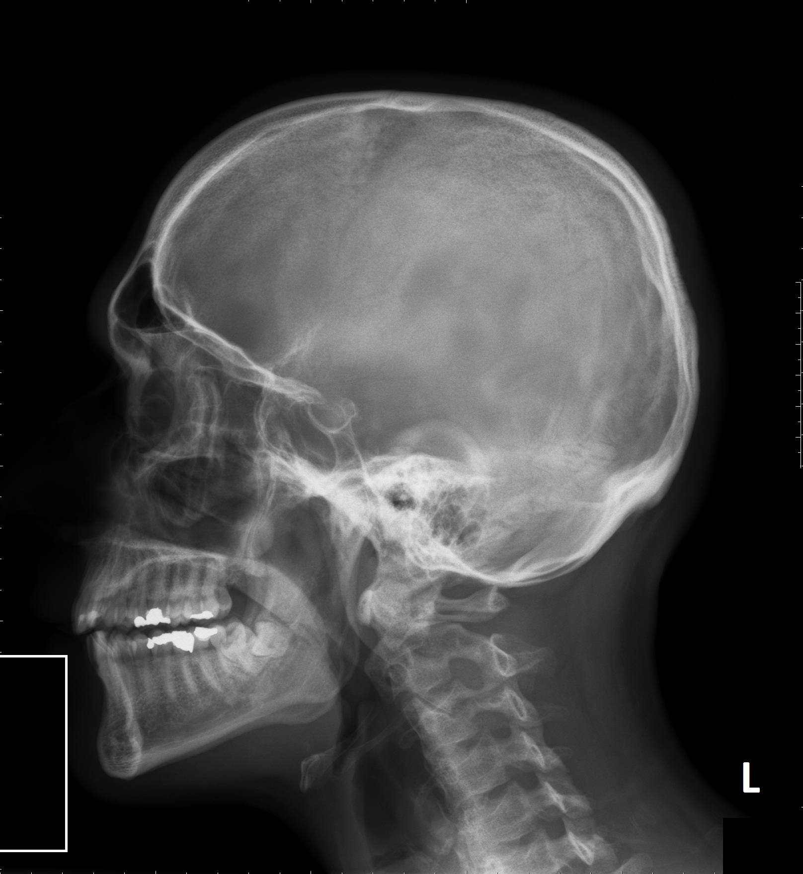 x-ray image of skull (lat.)